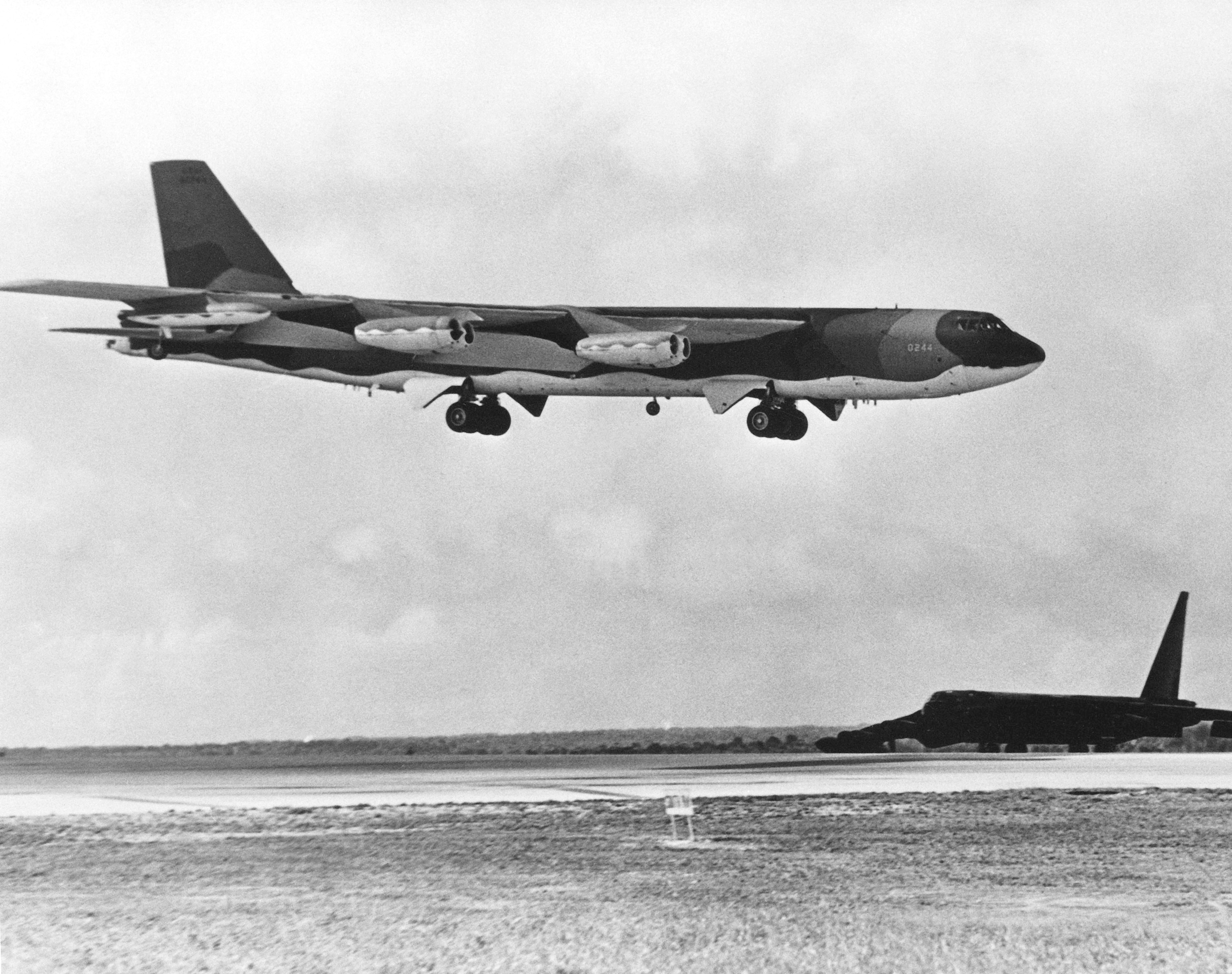 A U.S. Air Force Boeing B-52D Stratofortress from the 43rd Strategic Wing waits beside the runway at Andersen Air Force Base, Guam (USA), as a B-52G-110-BW (s/n 58-0244) from the 72nd Strategic Wing (Provisional) approaches for landing after completing a bombing mission over North Vietnam during Operation Linebacker II on 15 December 1972.